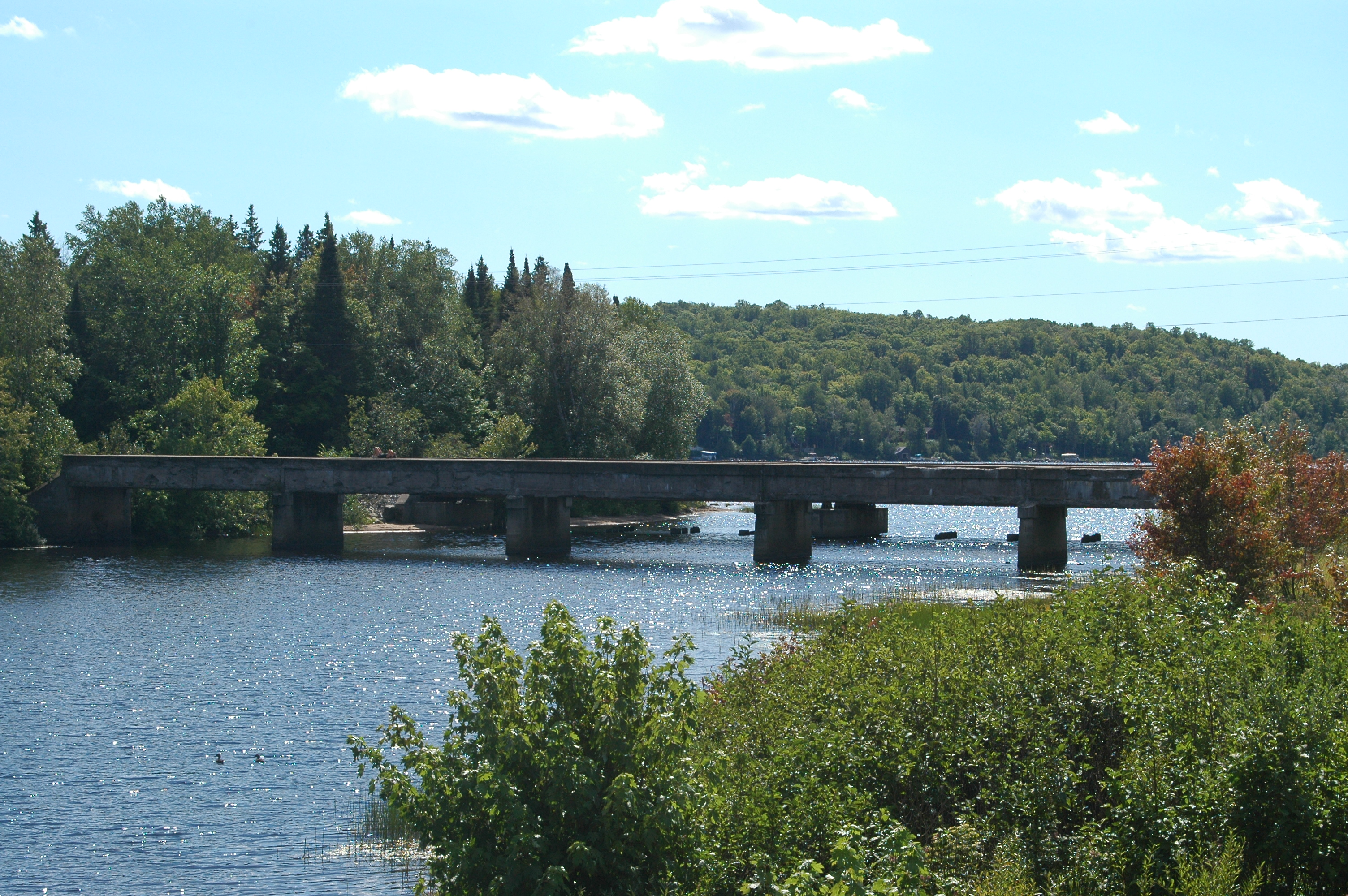 The original Peshekee River Bridge listed on the National Register of Historic Places in Michigamme Township, Michigan, USA that carried US 41/M-28 in the 1920s and 1930s.